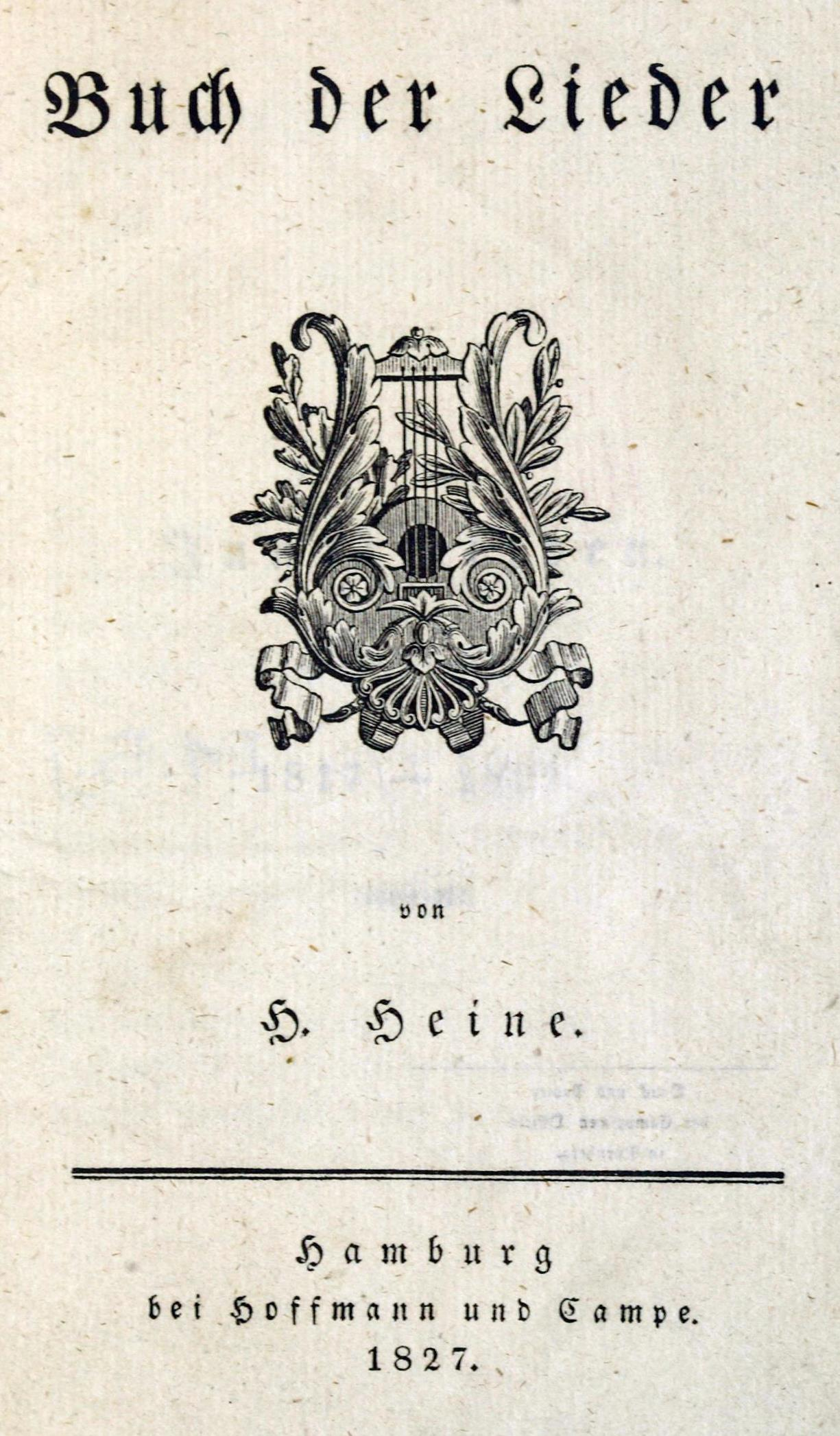 This is a scan of the historical document